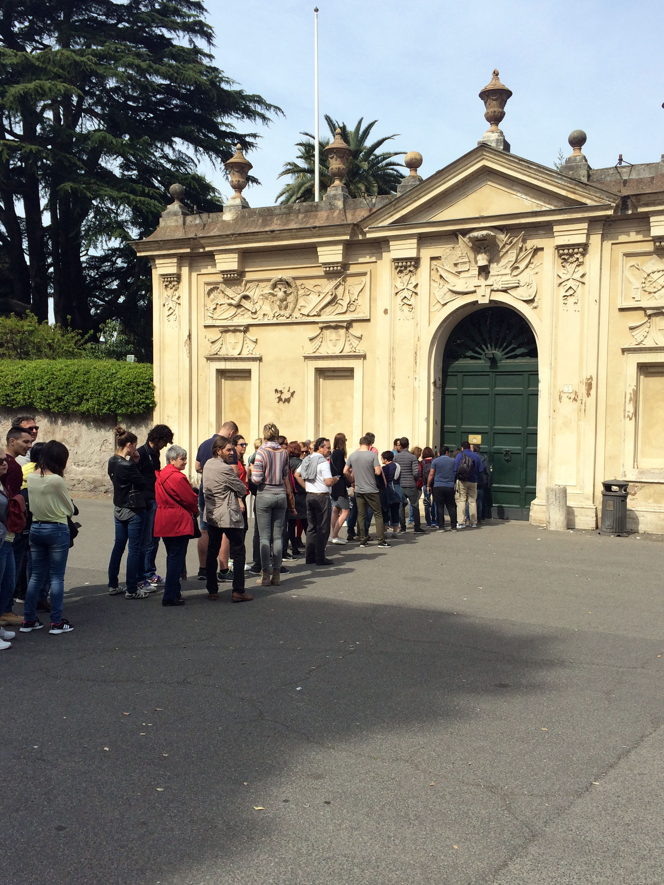 Queue in front of the keyhole (Il Bucco Della Serratura) of the Villa del Priorato di Malta in Rome.